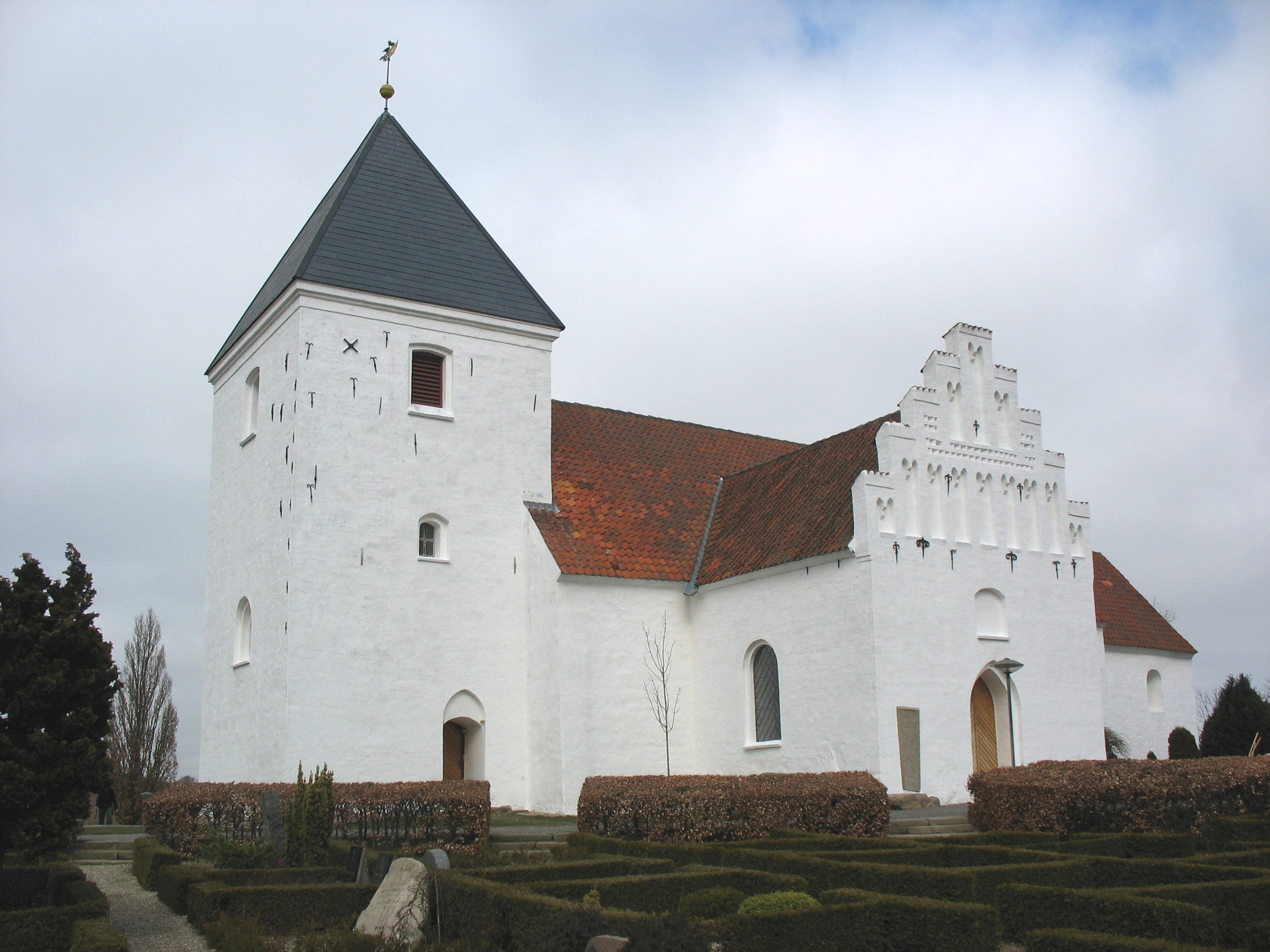 The church "Lisbjerg Kirke" in East Jutland, Denmark.